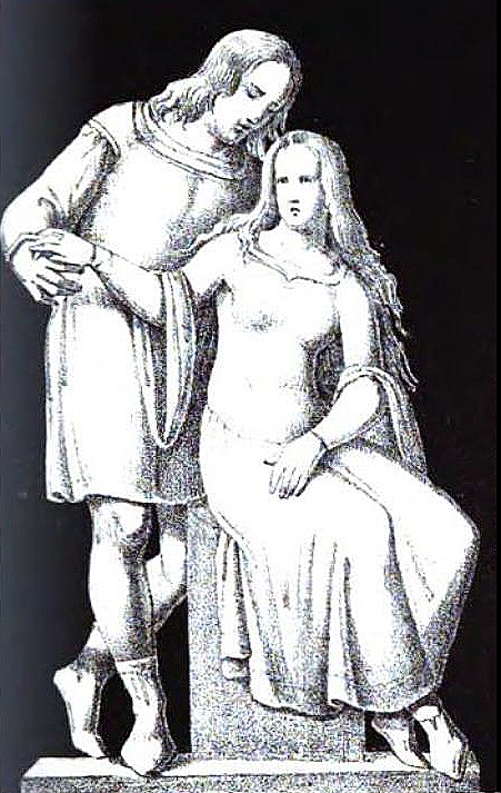 The caption for this illustration reads "Ask and Embla". The artist is uncredited. A higher quality version of this file would be most welcome. This version was taken from a low quality scan found in a PDF version of the source.